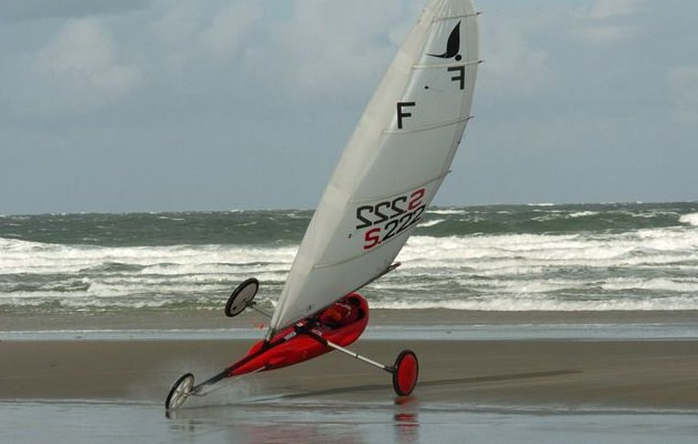 A Standart type land yacht.